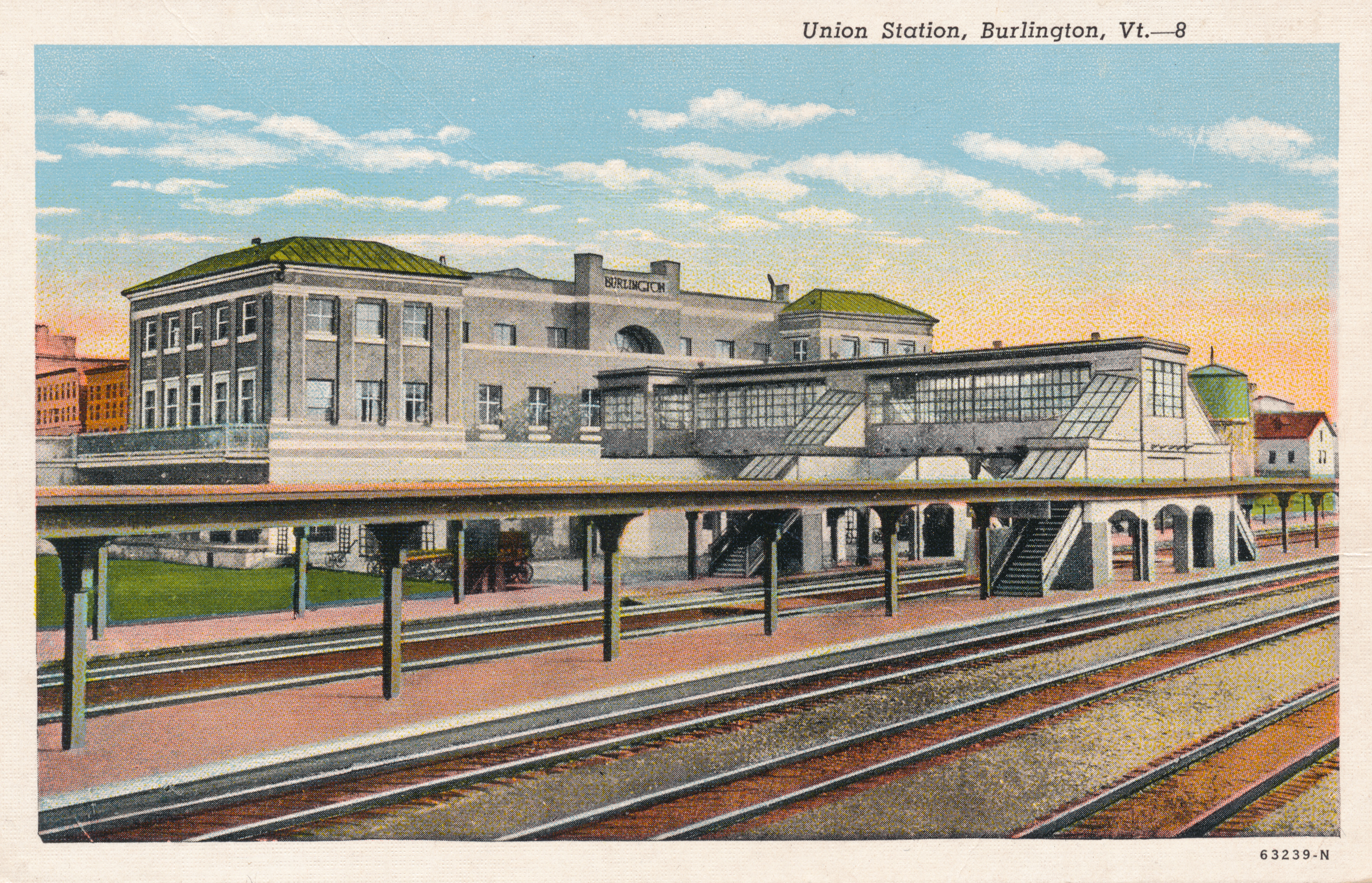 An early postcard of the Union Station building in Burlington, Vermont. An imprint on the rear of the card reads, "C. W. Hughes & Co. Inc. - Mechanicsville, N. Y."